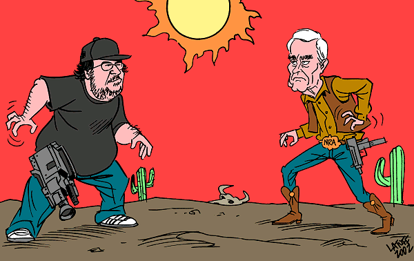 Michael Moore versus Charlton Heston (Bowling for Columbine)